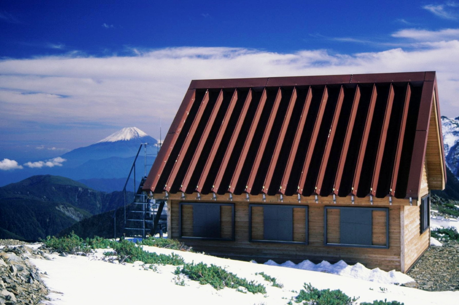 Mount Kogochi hut and Mount Fuji seen from Mount Ogochi in Akaishi Mountains, Japan.